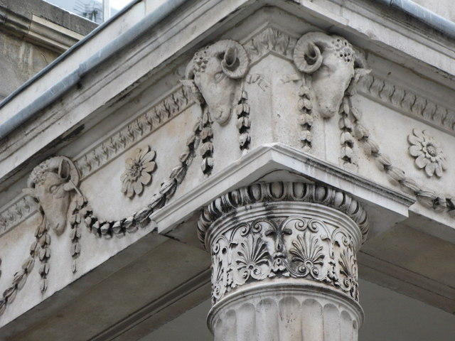 The entrance to Chandos House, 2 Queen Anne Street, W1 - detail. See 1527839.